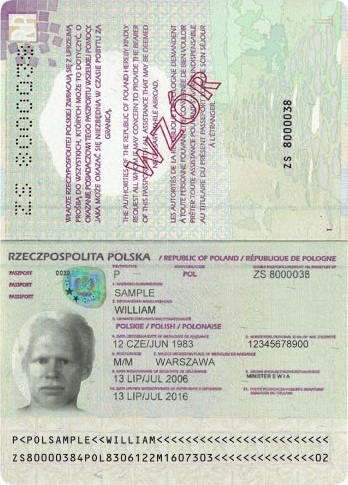 Voided Specimen of a current Polish passport. Image of passport's front cover and bearer’s details page. WZOR is Polish for SPECIMEN.